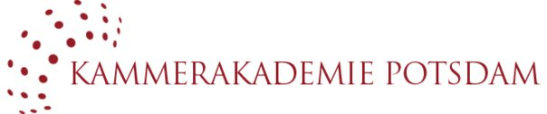 Logo of the Kammerakademie Potsdam